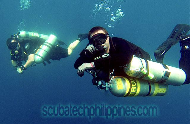 Tec Sidemount diver as part of a mixed (backmount/sidemount) technical diving team.